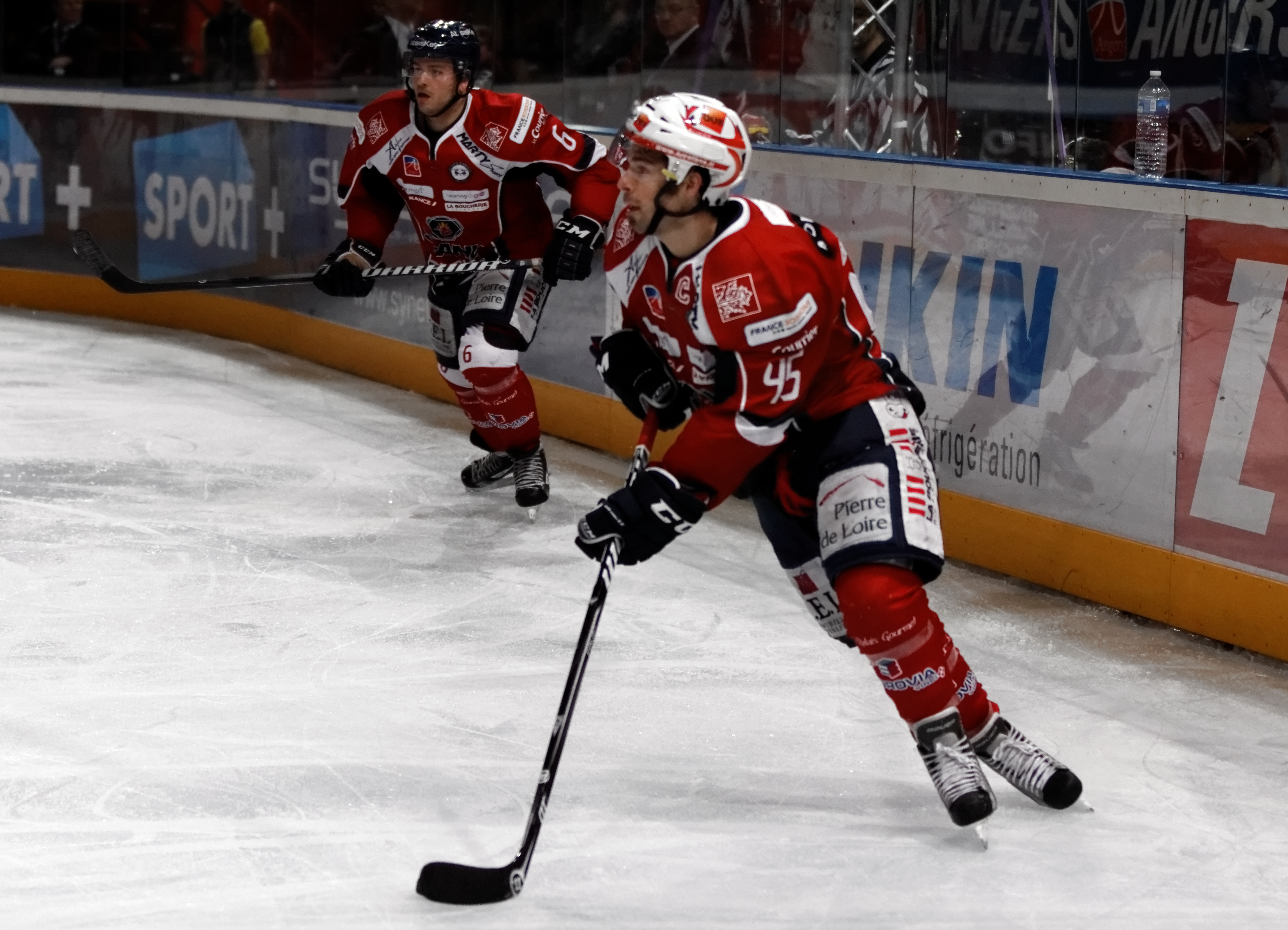 Final of the Ice Hockey French Cup 2013.